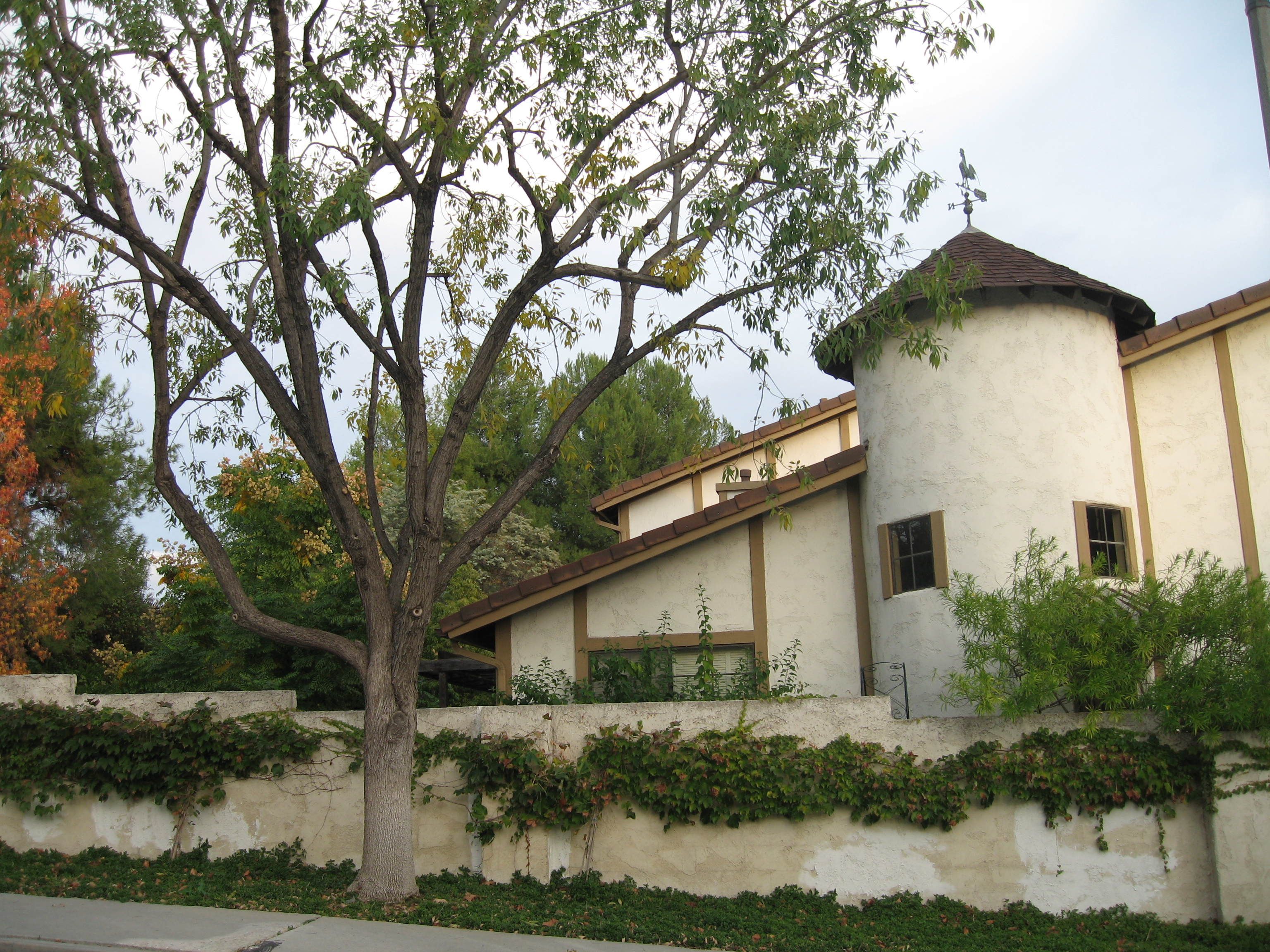 Strawberry Hill Apartments — located in the Forest Cove neighborhood of the city of Agoura Hills, California Kapampangan: DengApartments keng Strawberry Hill distritu ning Forest Cove